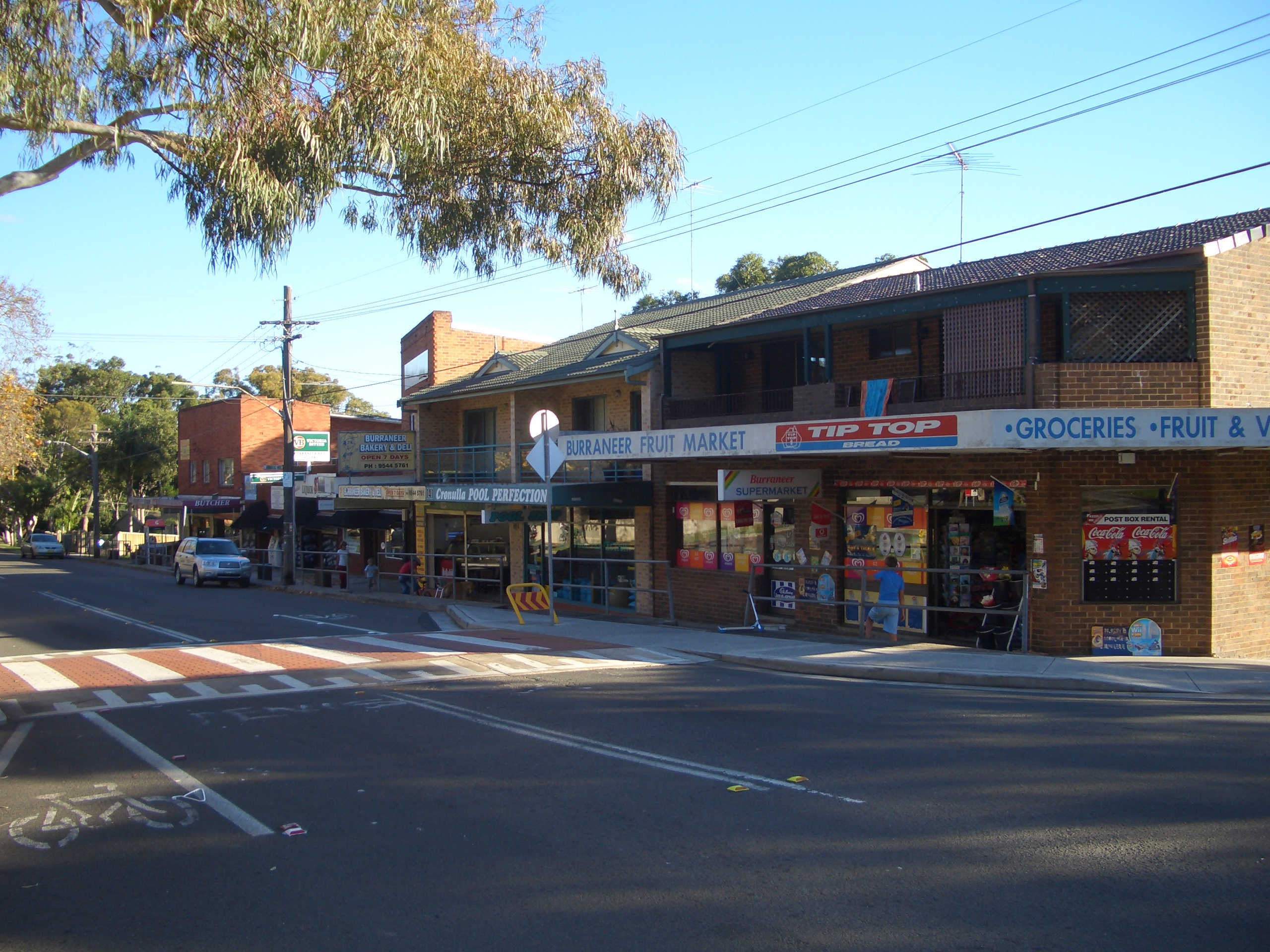 Burraneer, Woolooware Road South